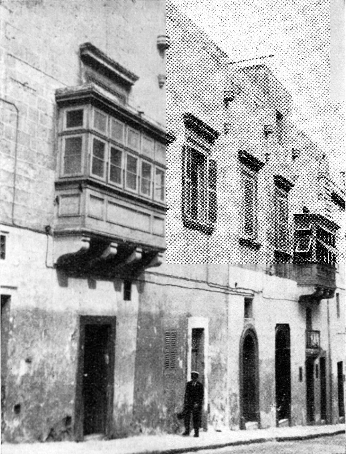 First Auberge de France, Valletta, when it was fully intact